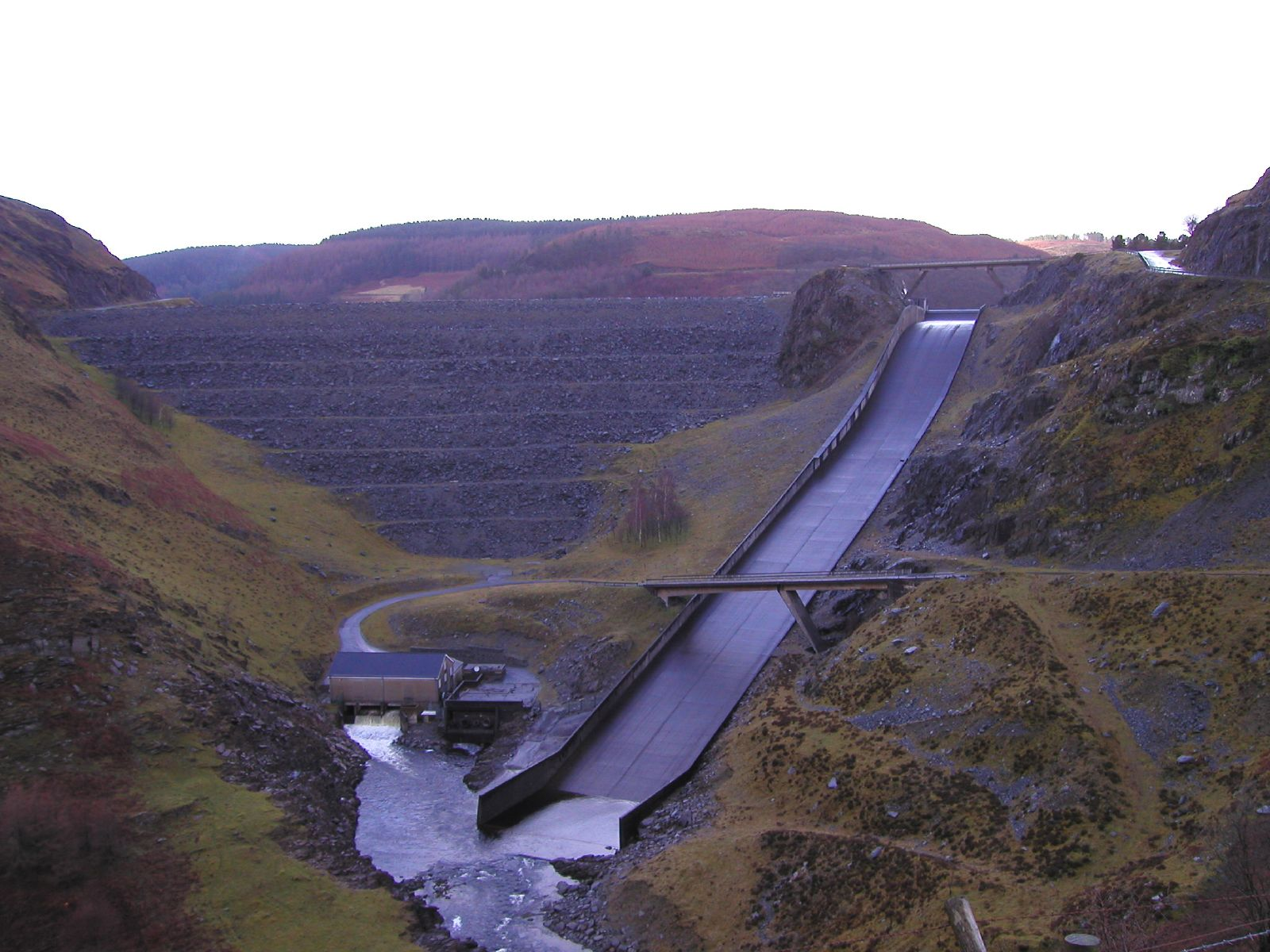 Llyn Brianne Reservoir, Wales. Photo taken 2005-02-12